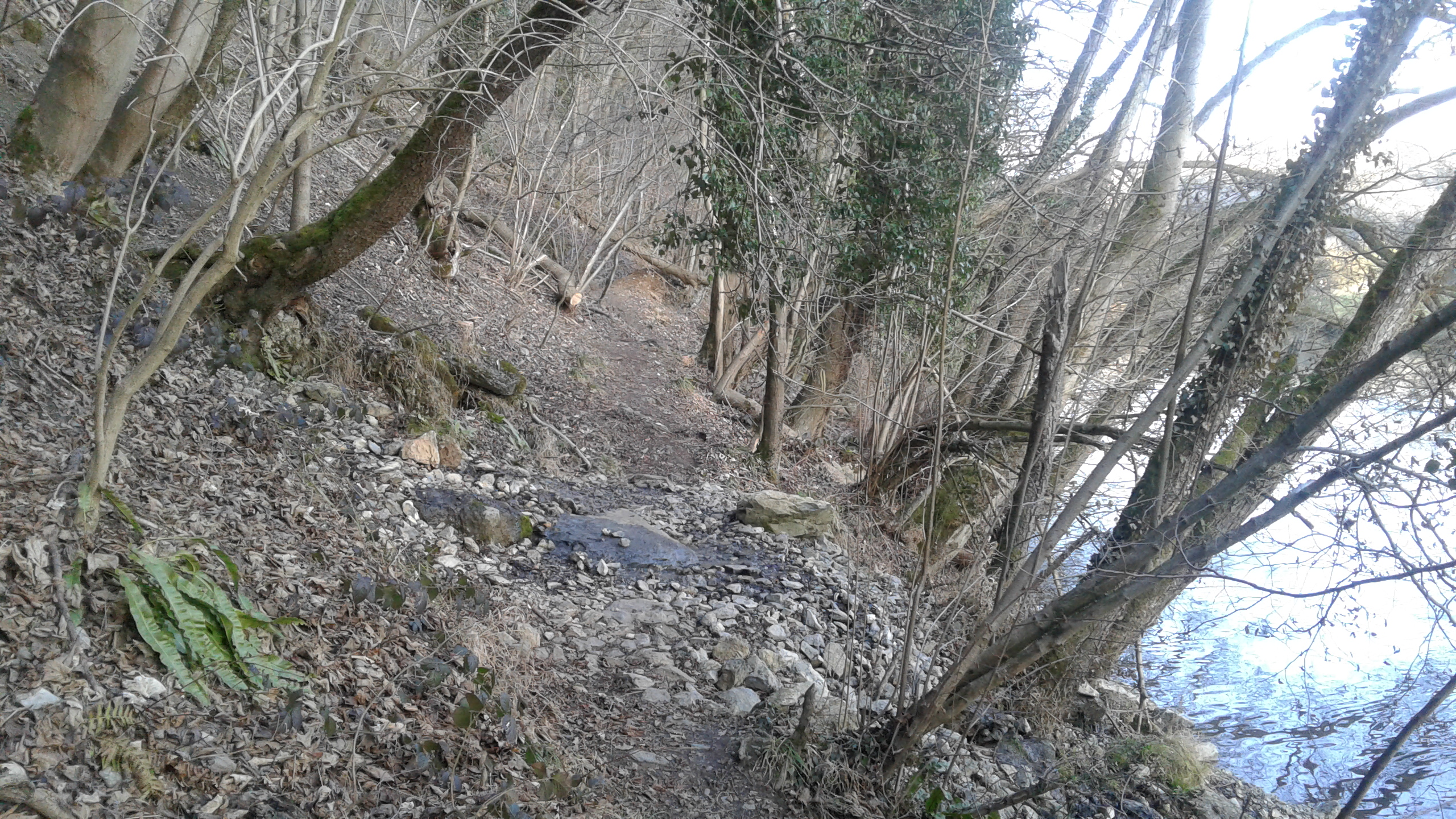 East karst spring of La Roche-aux-faucons in Esneux, Belgium